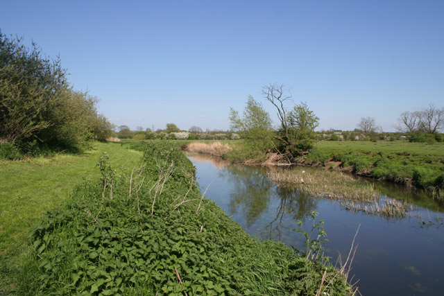 The River Soar near Enderby. Jubilee Park to the left and farmland to the right.